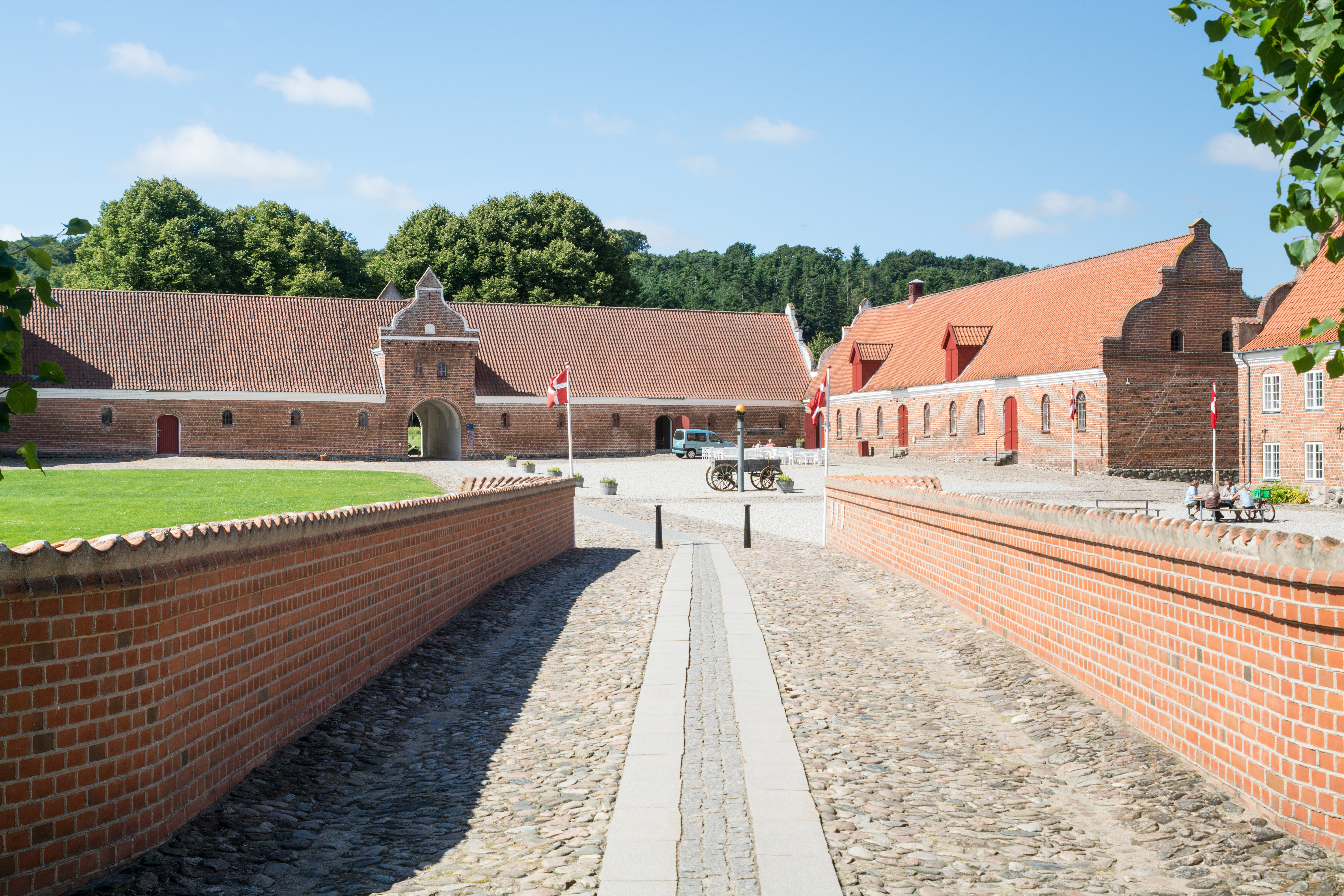 Gammel Estrup (Norddjurs Kommune).